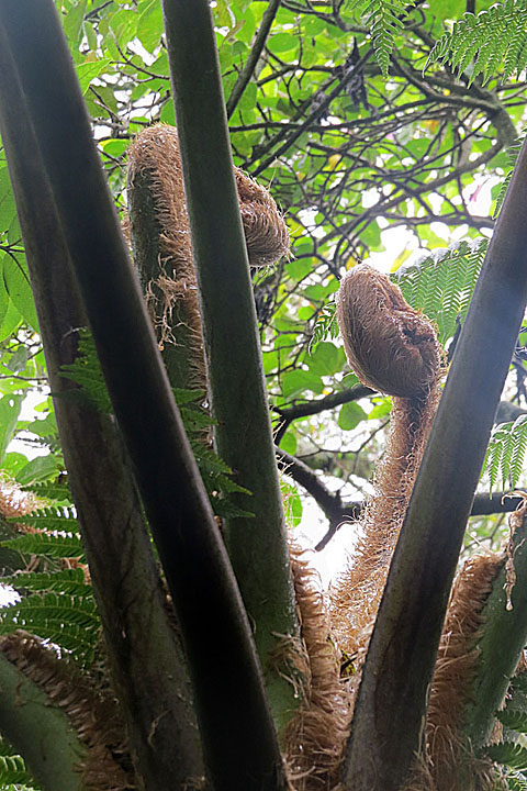 Also placed in the Spaeropteris genus. Native to the mountains of northern South America. Botanical Gardens of Quito.